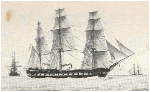 French frigate Pomone